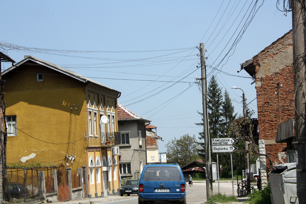 Center of Barzia with road 81 serving as main street